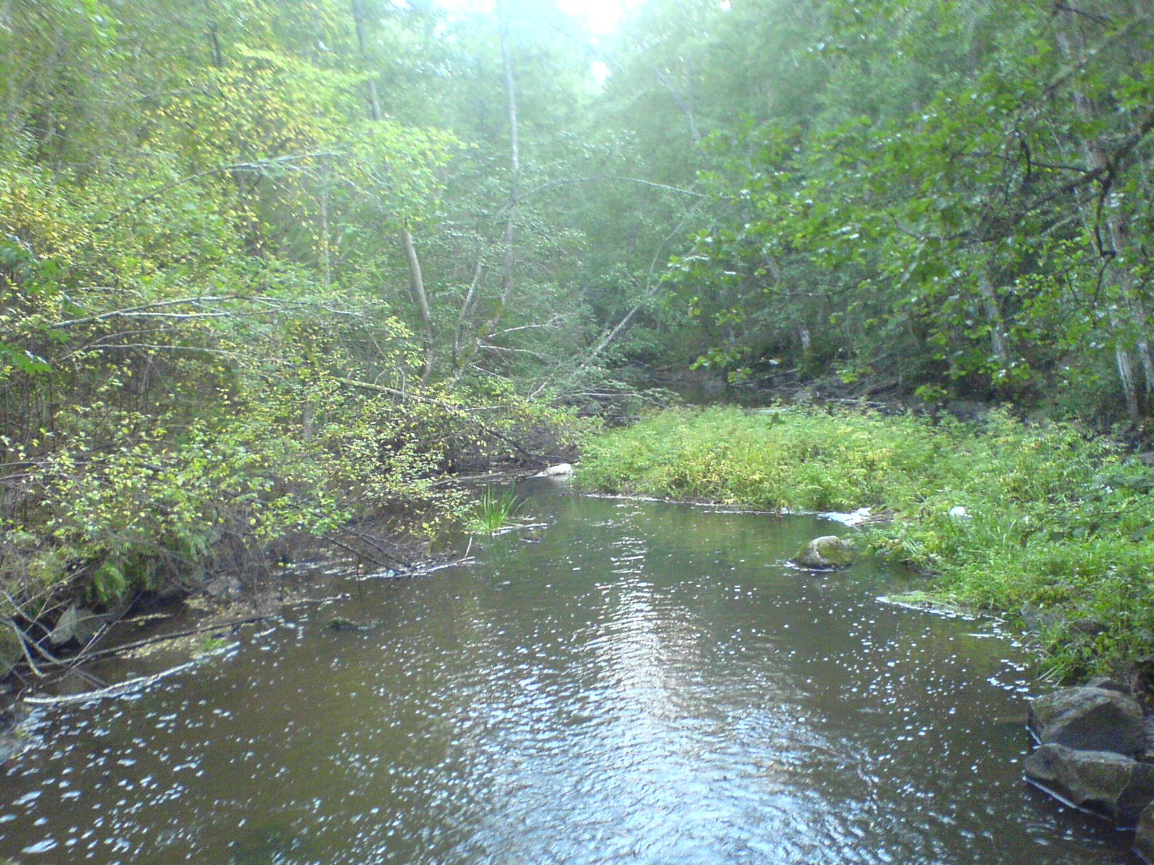 Horsbacksdalen